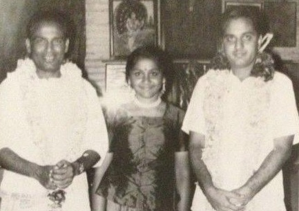 Kumari Sheila with Guru Dhandayudha Pani Pillai and Guru Chitti Babu, Shilpa Architects Picture archive, 1968